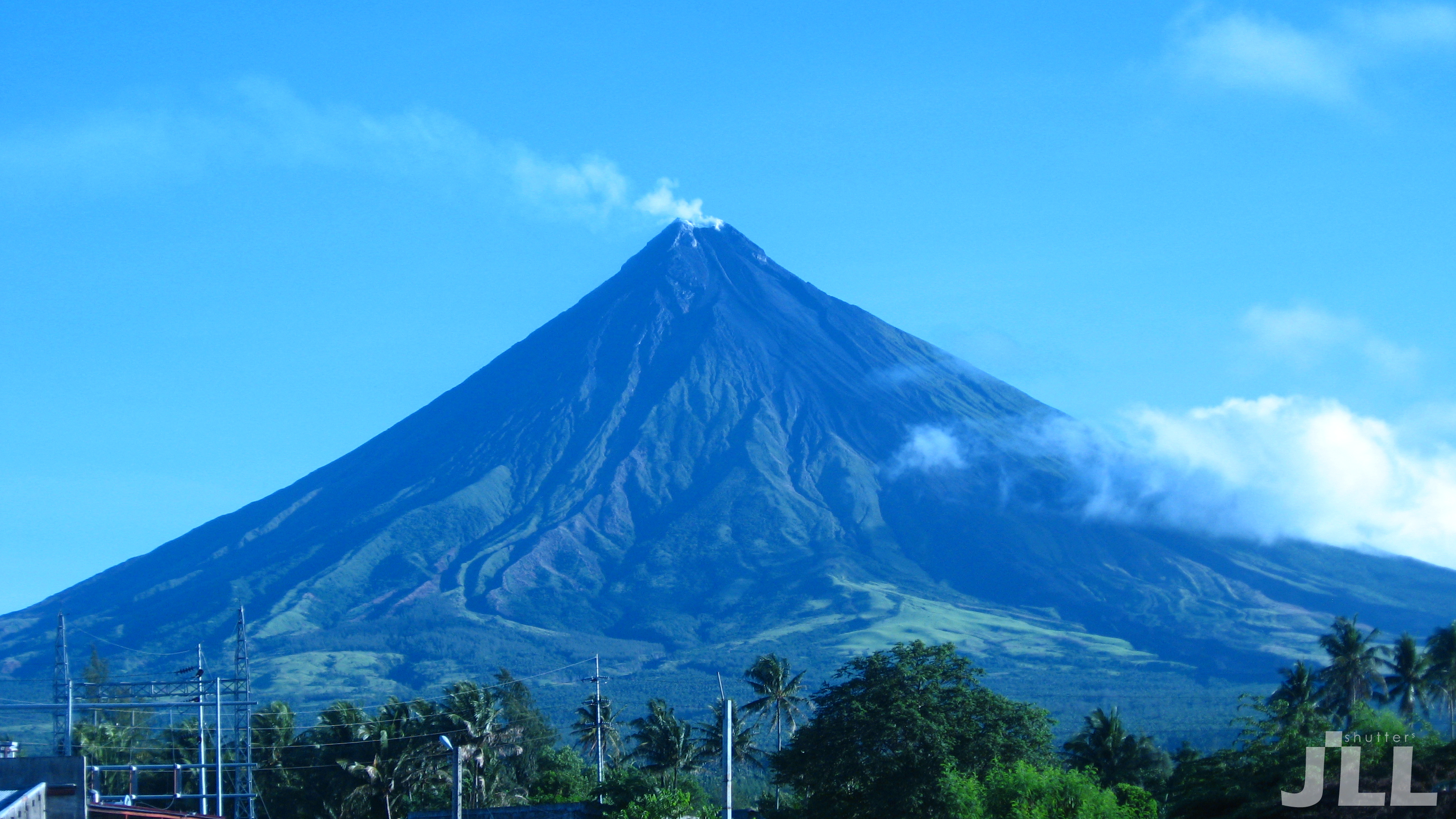 Mayon Volcano by 6:48AM as of May 8, 2010